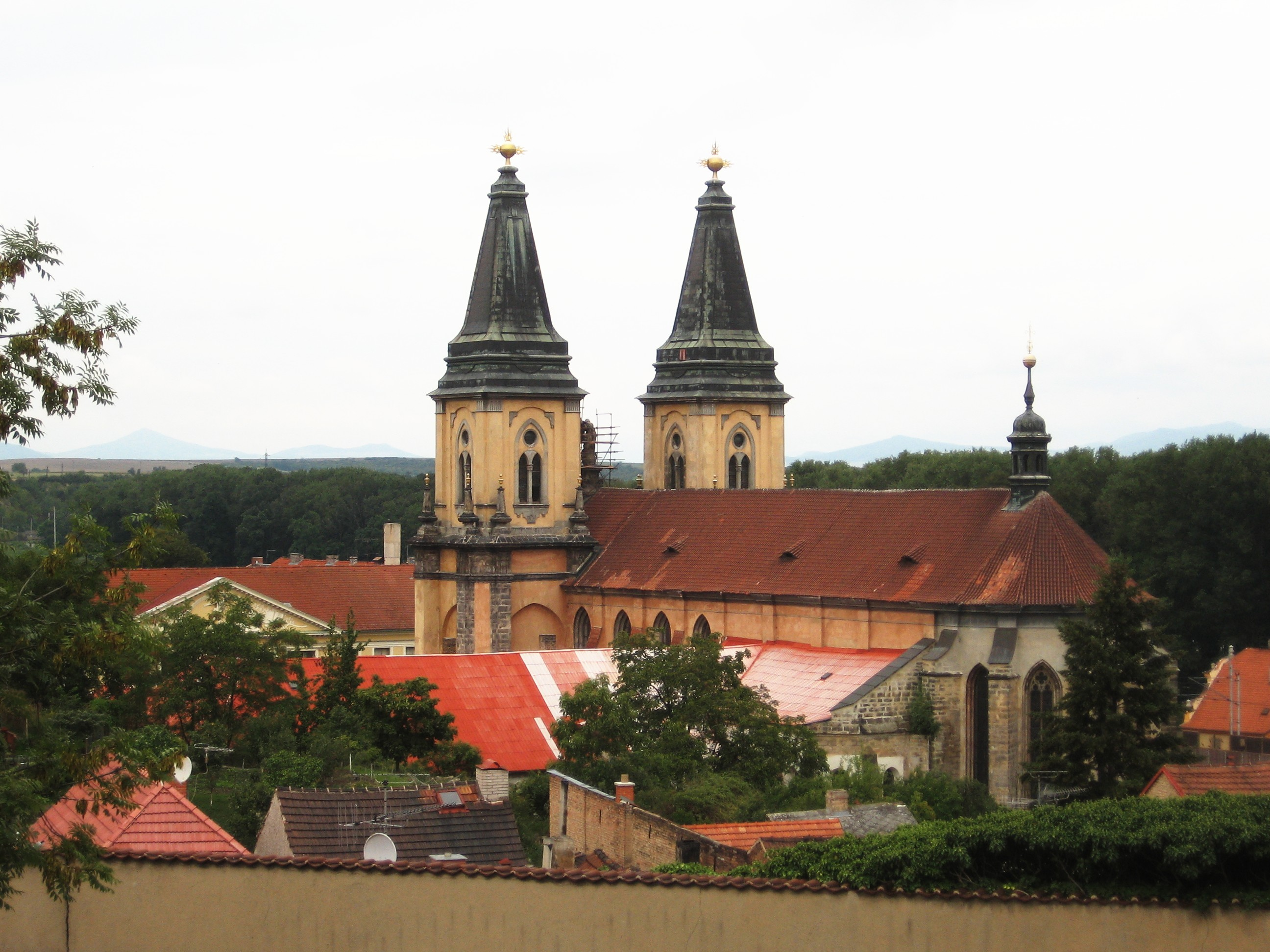 Church of the Nativity of the Virgin Mary in Roudnice nad Labem, Czech Republic